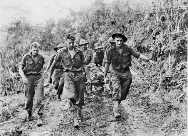 A casualty from the Australian 2/23rd Battalion is evacuated from the fighting around Sattelberg, New Guinea, November 1943